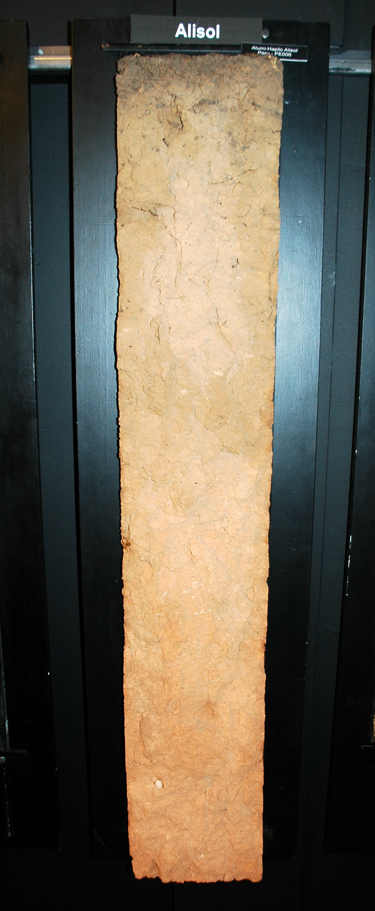 Soil profile of a Alumi-haplic Alisol